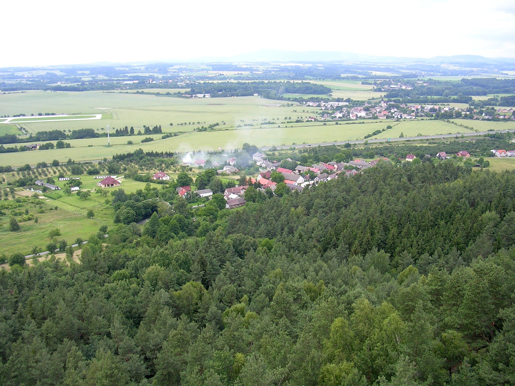 A view of Olšina from Drábské světničky (Mladá Boleslav District, Central Bohemian Region, the Czech Republic). - Google Maps - Google Earth